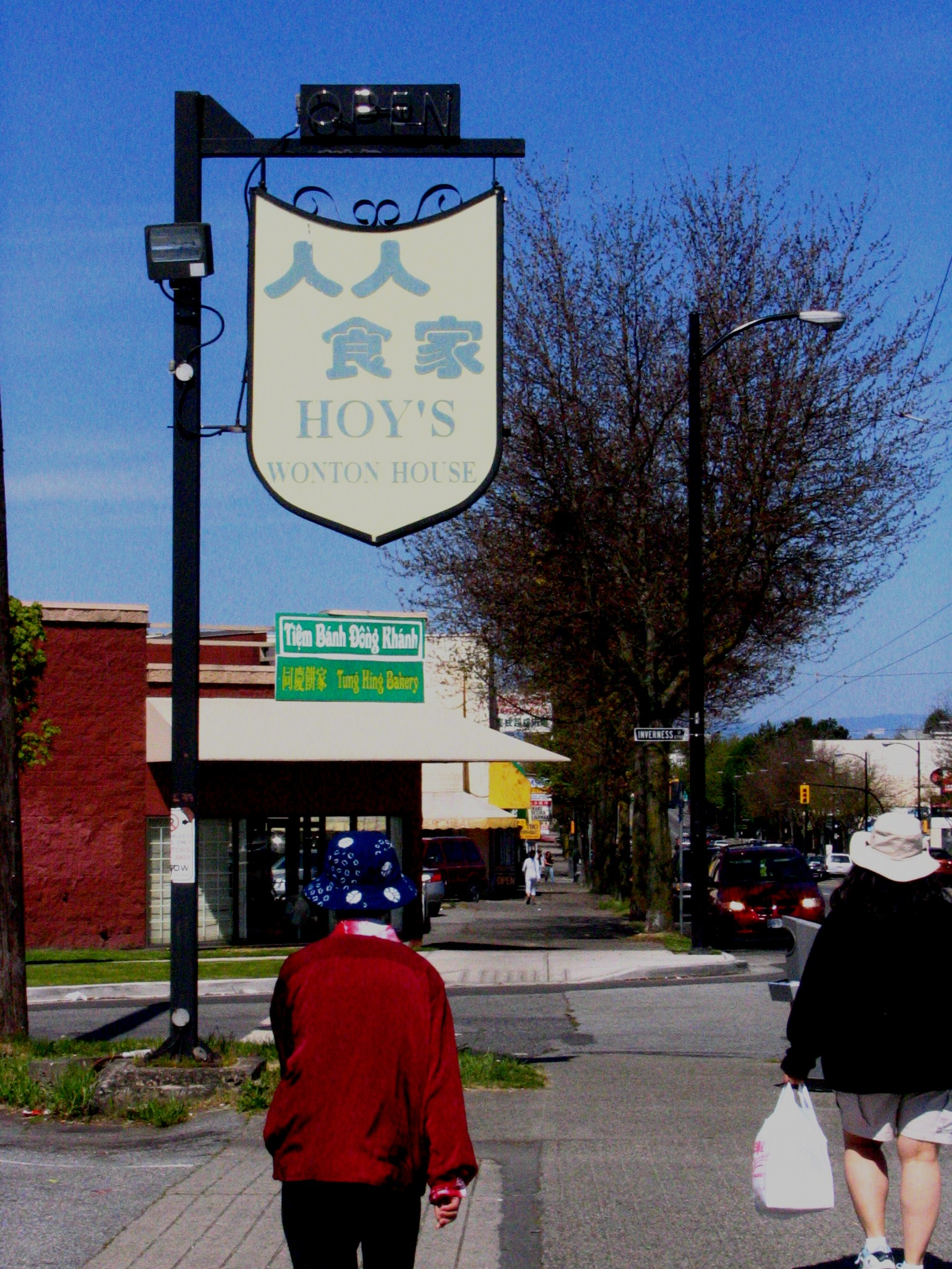 Picture taken by Martin Mullan (May 2006) of Kingsway (East Vancouver). Picture shows multi-cultural nature of street (Chinese and Vietnamese shopping).